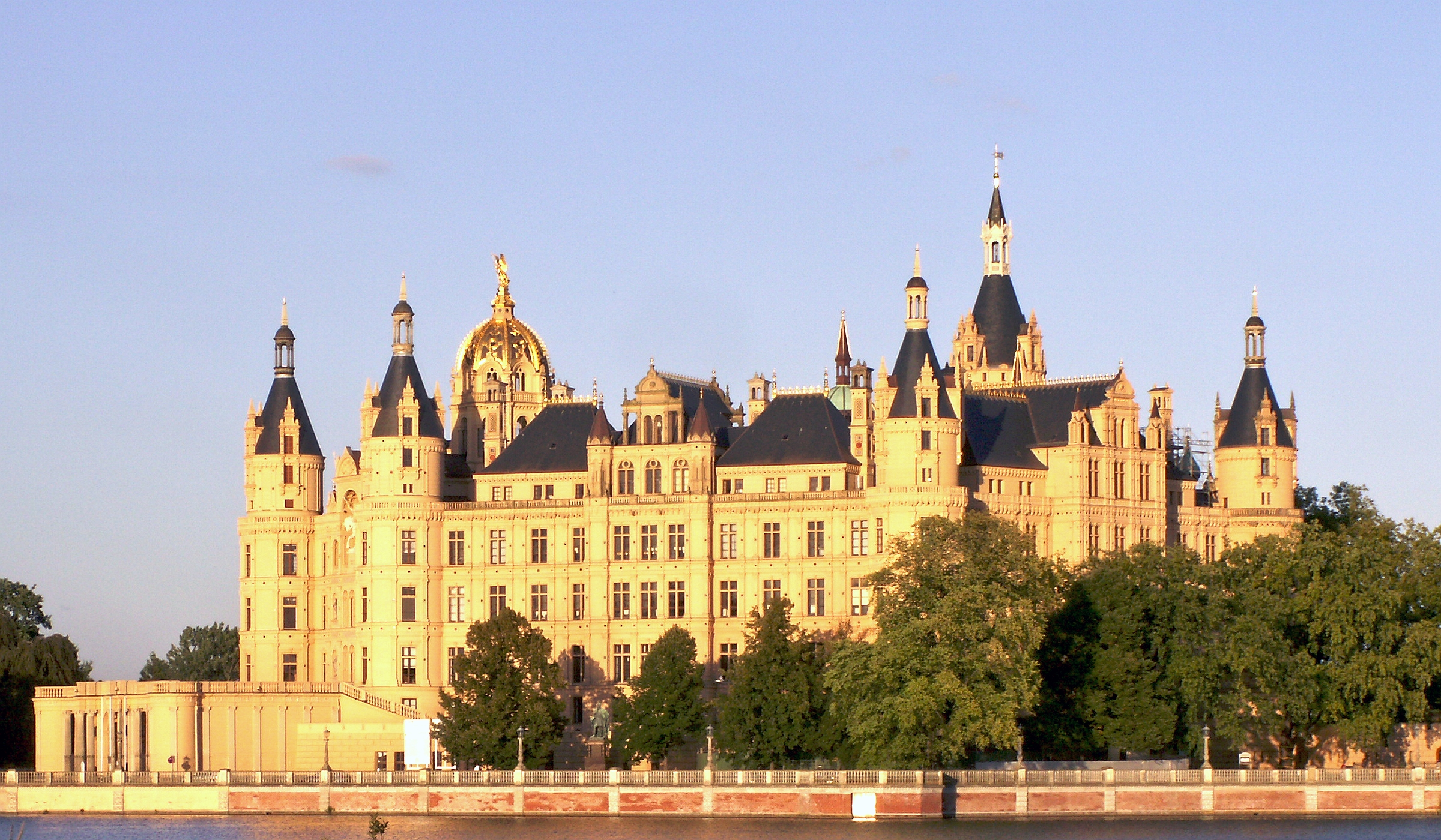 Schwerin Castle, view from west/Burgsee. Location Schwerin, Mecklenburg-Vorpommern, Germany. Foto Wolfgang Pehlemann PICT0289